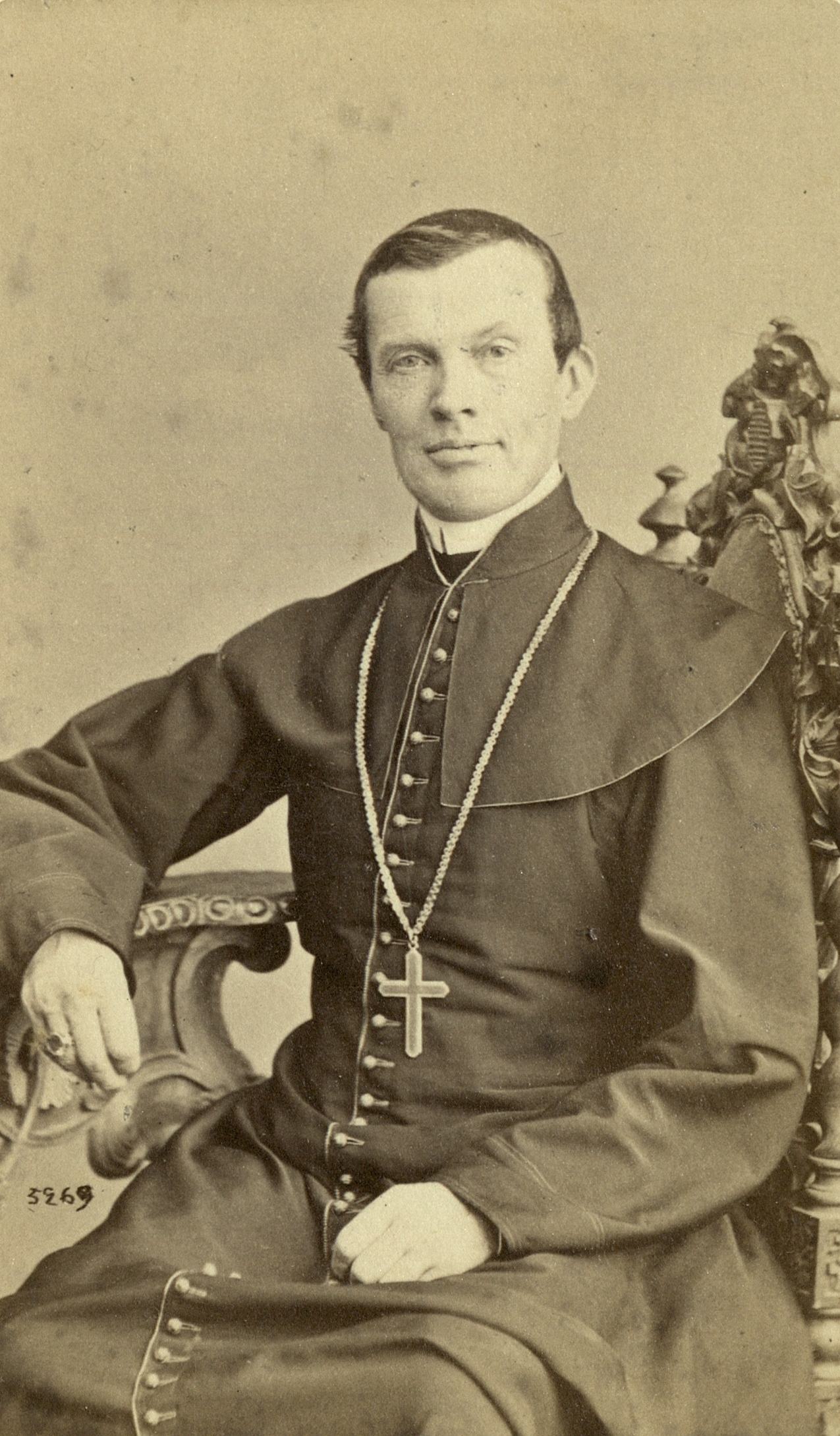 Janez Pogačar (1811-1884), slovene bishop.